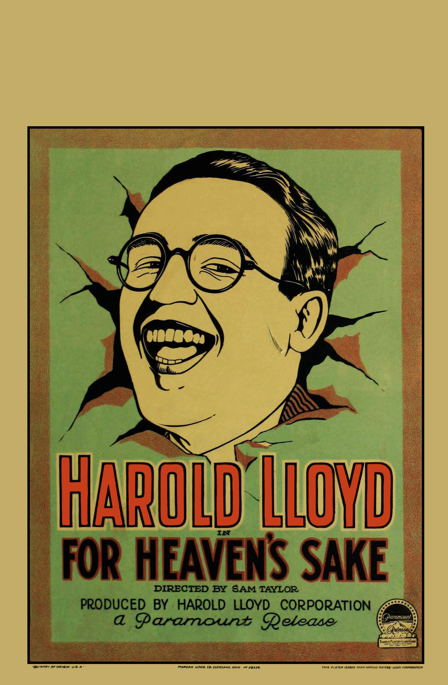 Film poster for the 1926 Harold Lloyd film For Heaven's Sake